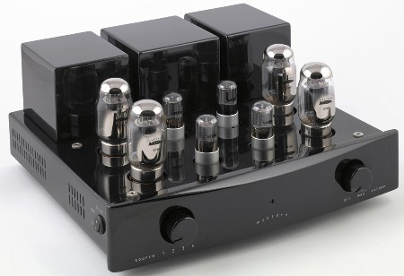 K502 amp